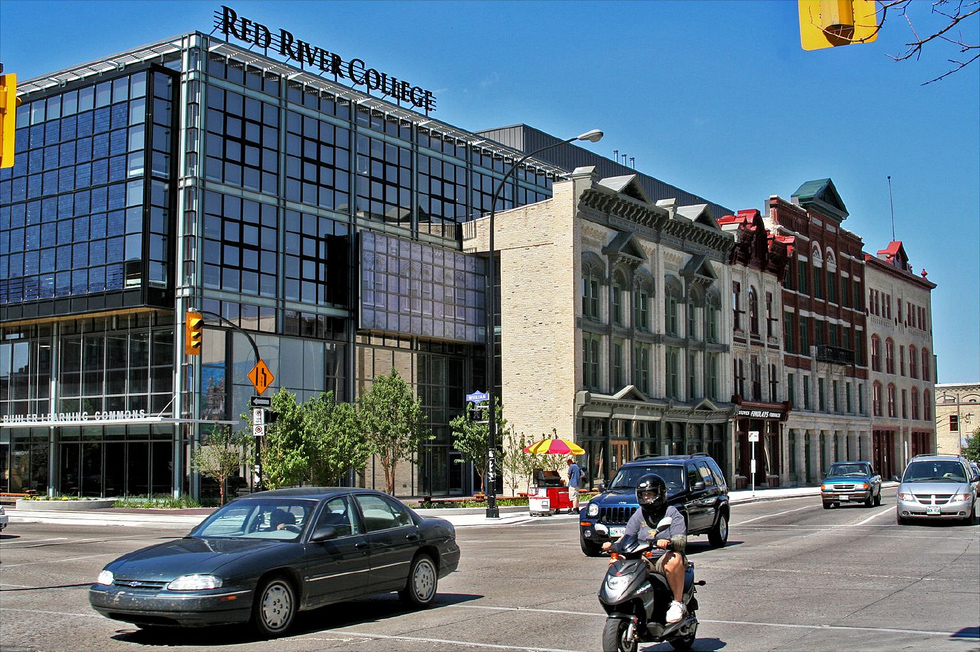 Red River College downtown Campus